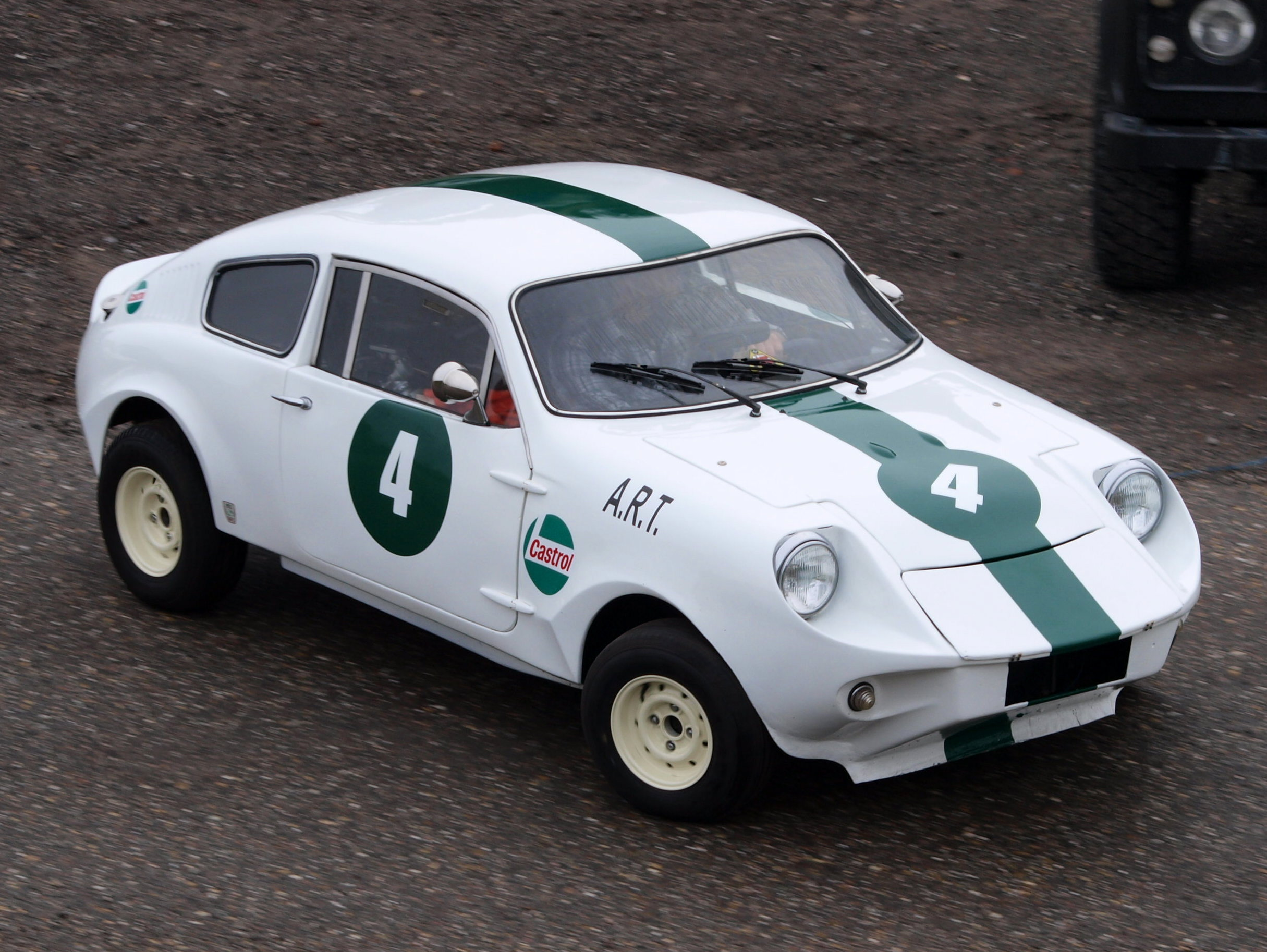 Photographed at the Nationaal Oldtimer Festival Zandvoort 2010, The Netherlands.